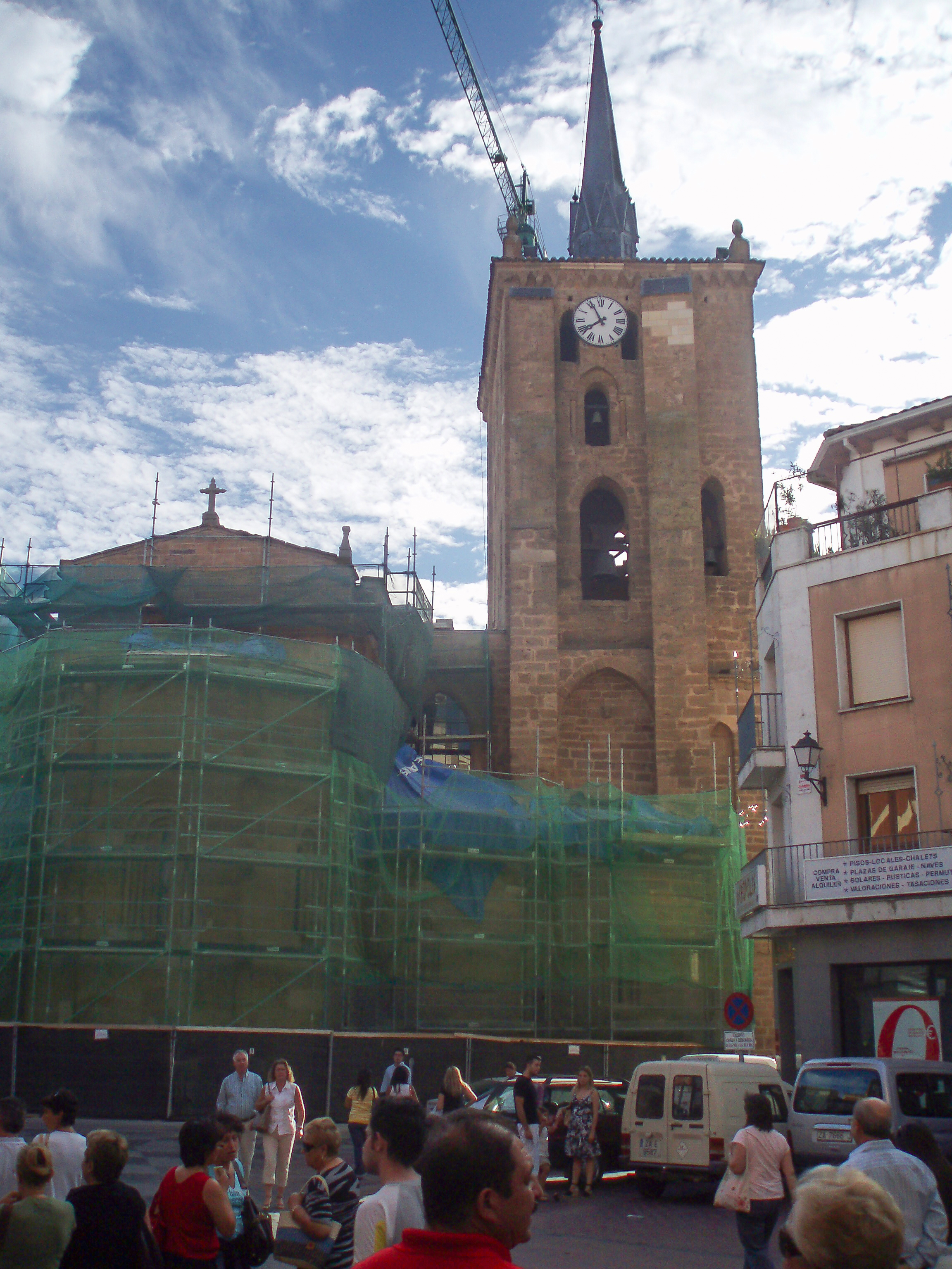 Church of Santa María de Azogue in Benavente.